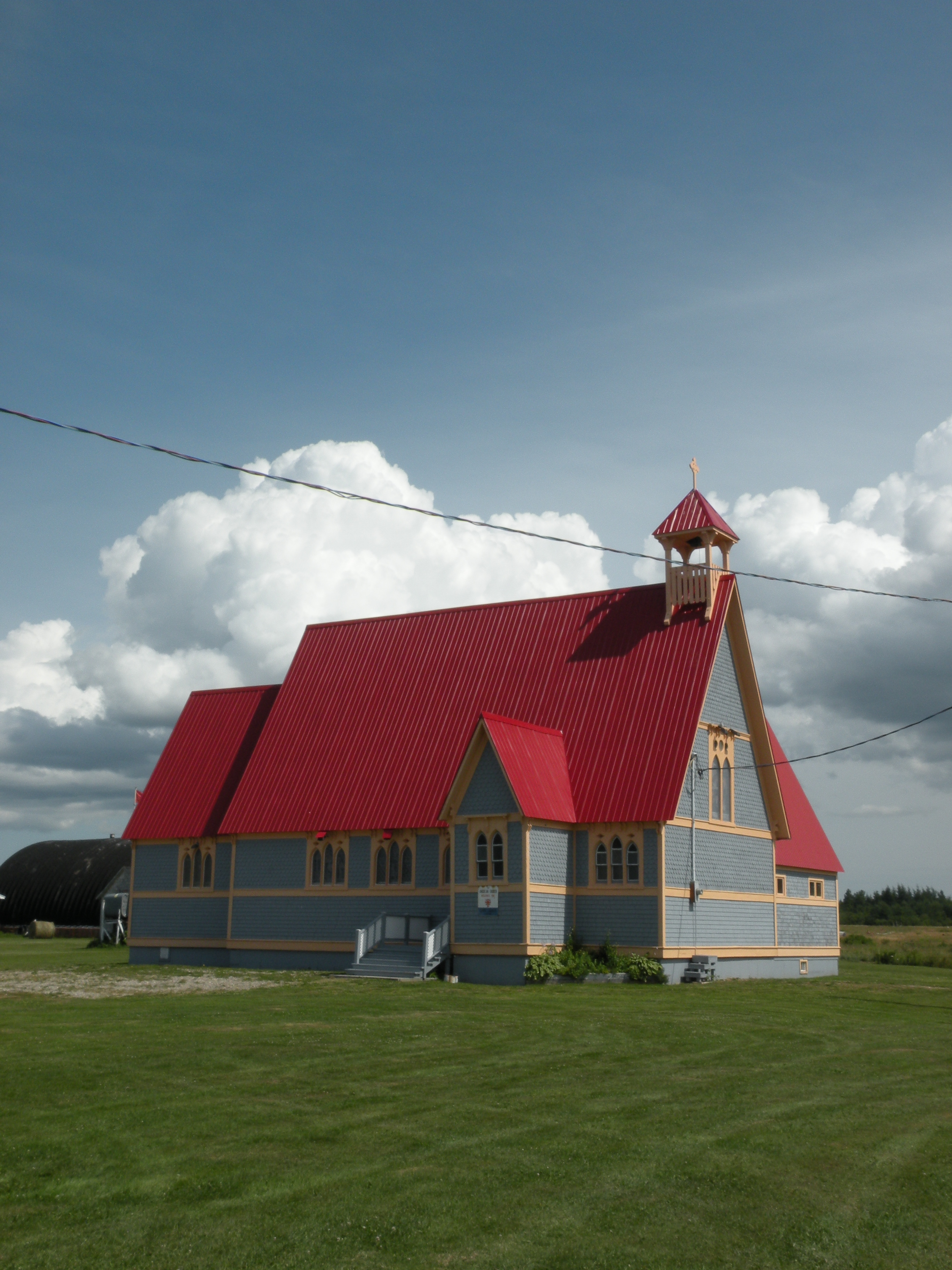 The anglican church of Clifton, New Brunswick, Canada.